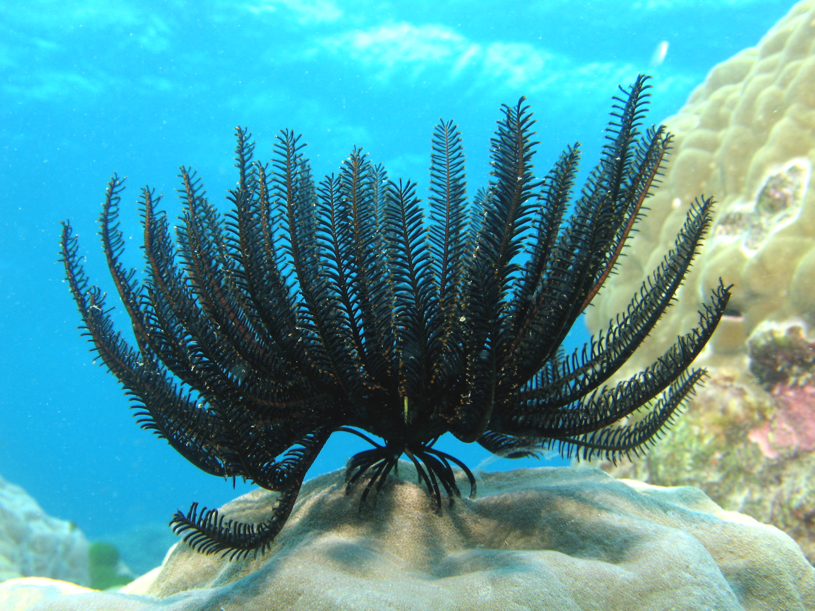 45 Feather star Crinoidea